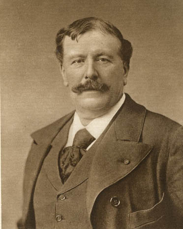 Jean-Baptiste-Antoine Guillemet's photo, c. 1900